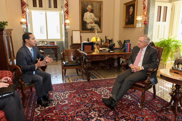 U.S. Senate Majority Leader Harry Reid meets with Secretary of Housing and Urban Development Nominee Julián Castro on July 7, 2014